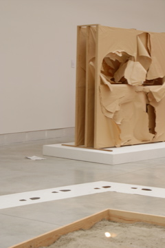 Gutai, Venice, 2009